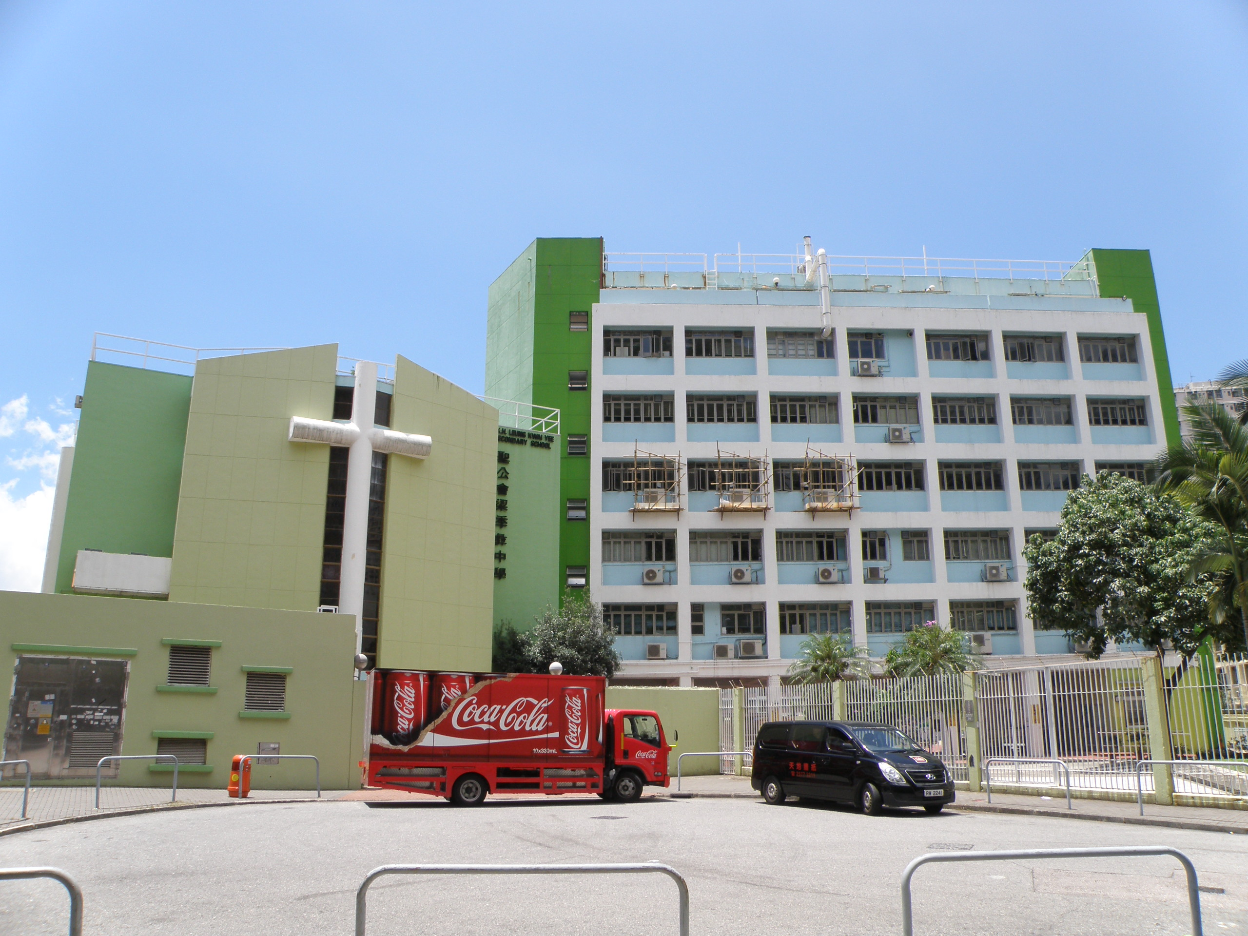 S.K.H. Leung Kwai Yee Secondary School in Kwun Tong, Hong Kong.